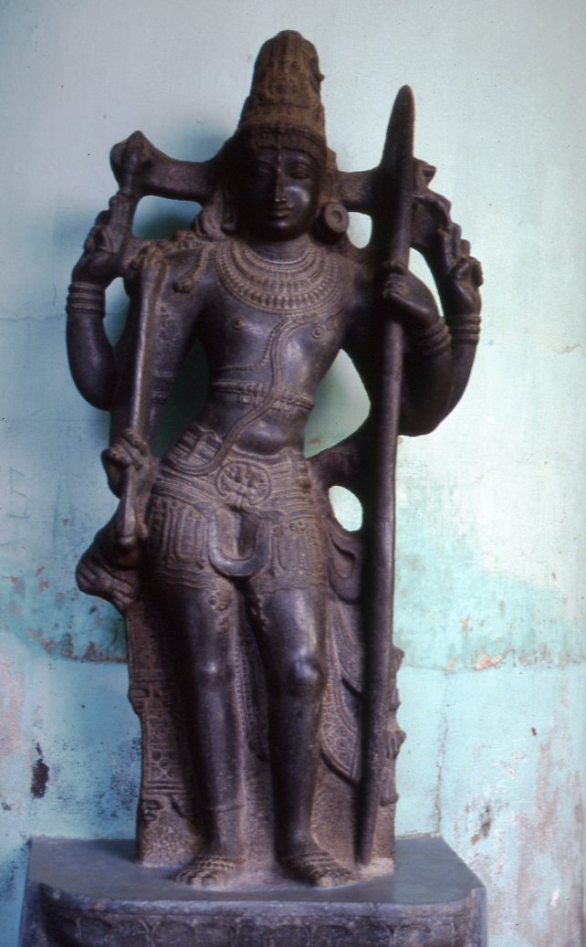 Rajarajesvaram Temple, Chola Dynasty, Thanjavur, Tamil Nadu, India